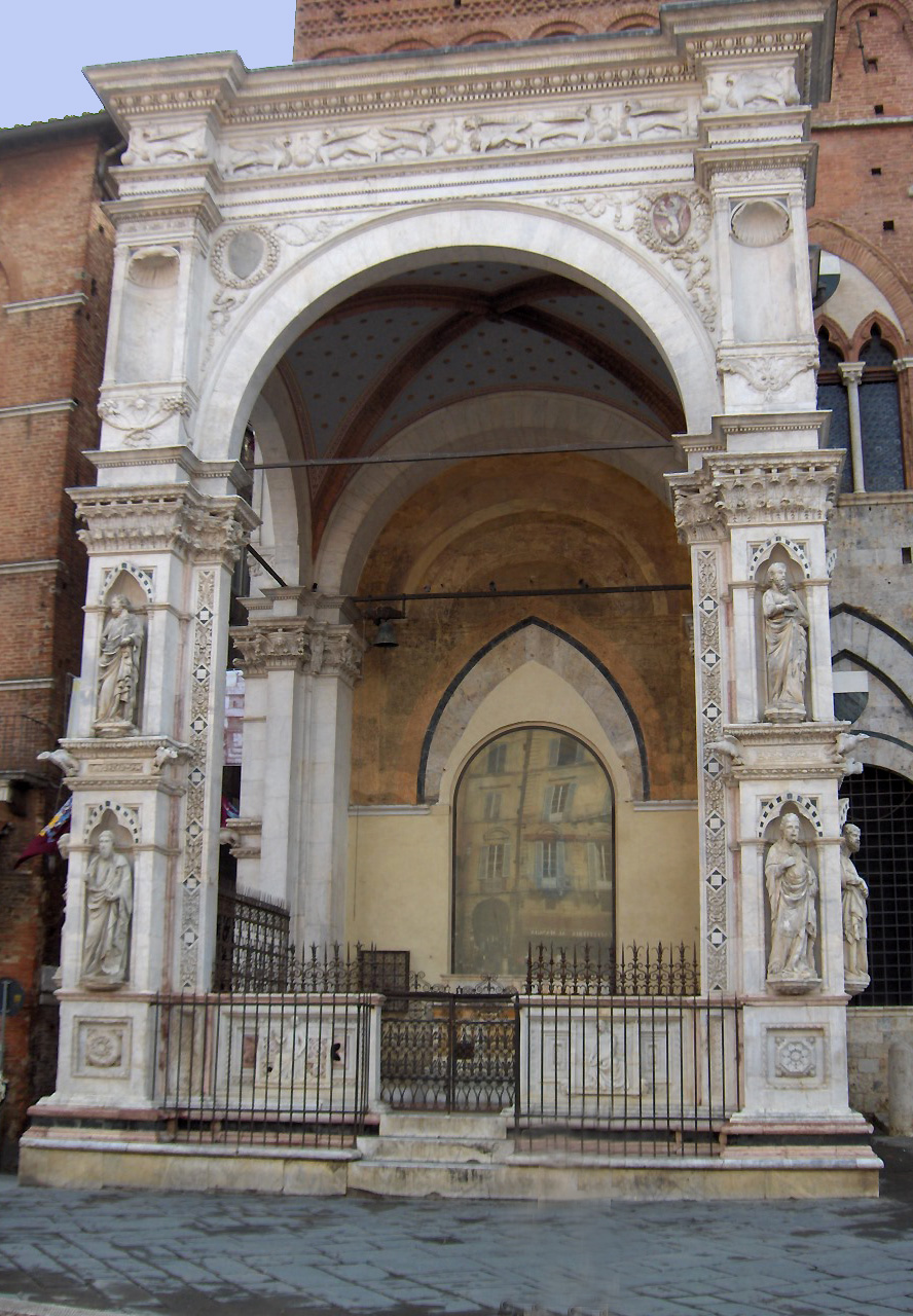 Loggia of the Torre del Mangia; Siena, Italy Own photo - photo made by Georges Jansoone